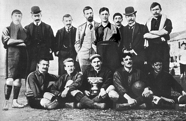 Italian Football Champion 1904 (CFC Genoa) From Left to Right: Back: Edoardo Pasteur, Étienne Bugnion, Joseph William Agar, James Richardson Spensley, Paolo Rossi, linesman, Edward Dobbie (referee), Oscar Schoeller Front: Attilio Salvadè, Vieri Arnaldo Goetzloff, Karl Senft (with trophy), Ernesto "Enrico" Pasteur, Silvio Pellerani